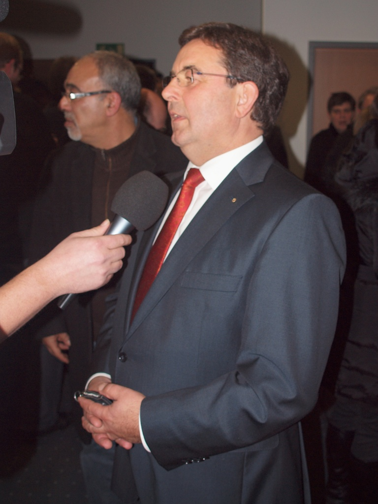 Karl-Ernst Schmidt (Christian-Democratic Union of Germany), district chief executive of Hersfeld-Rotenburg since 2003